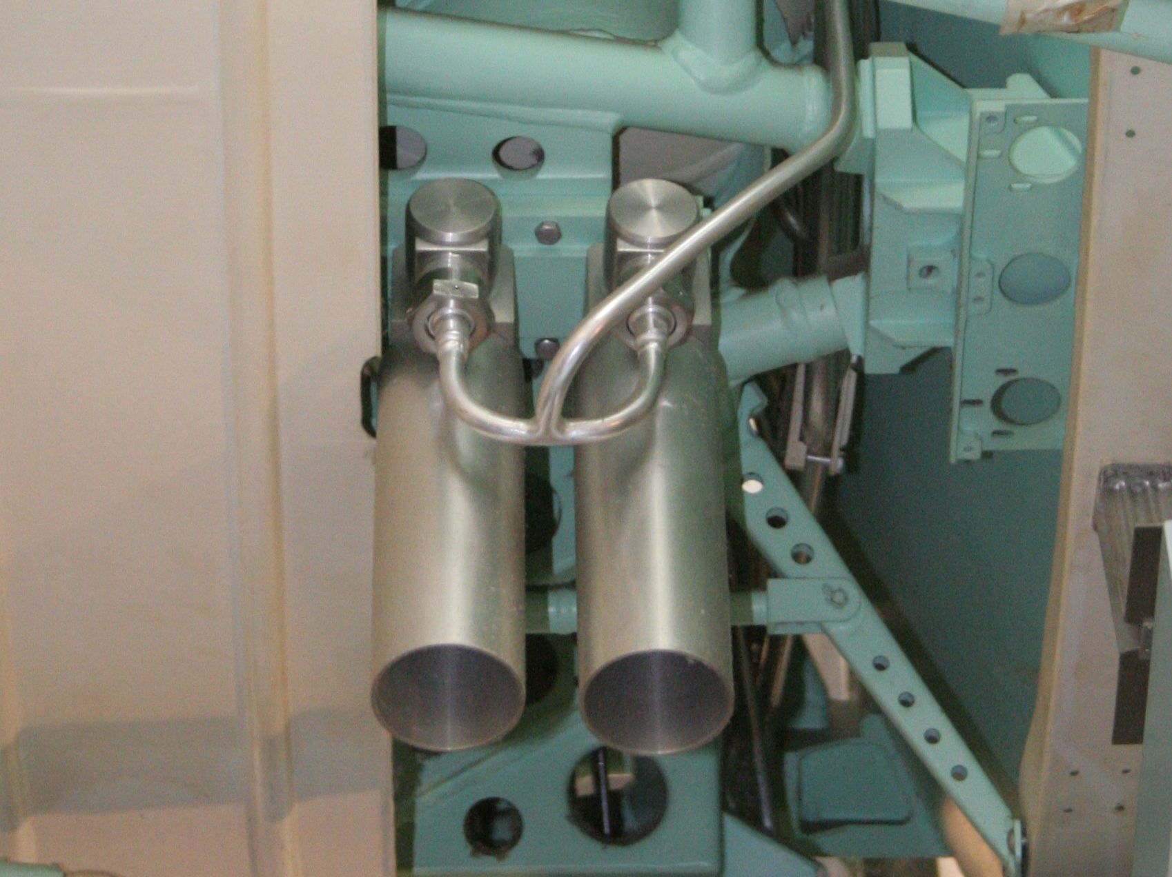 Soyuz 19 Mockup DPO engines on the Soyuz on display at the National Air and Space Museum in Washington D.C.